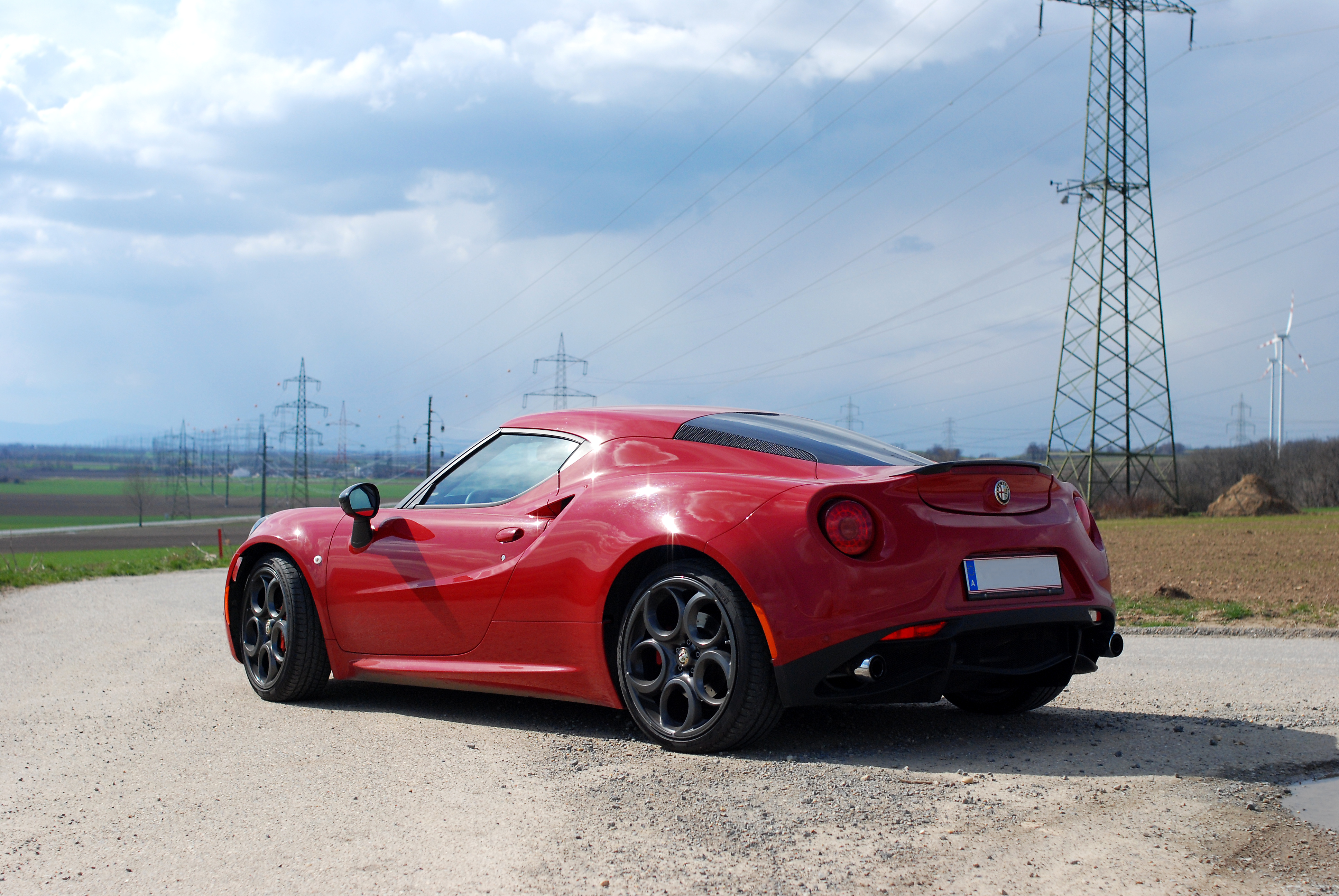 This picture shows an Alfa Romeo 4C from the left rear.